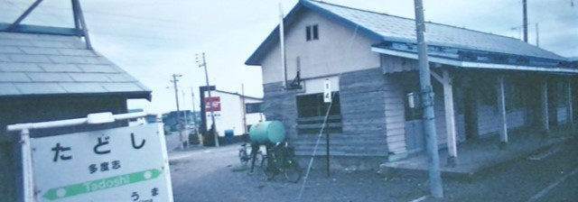 JR Shinmei line Tadoshi station (1995)